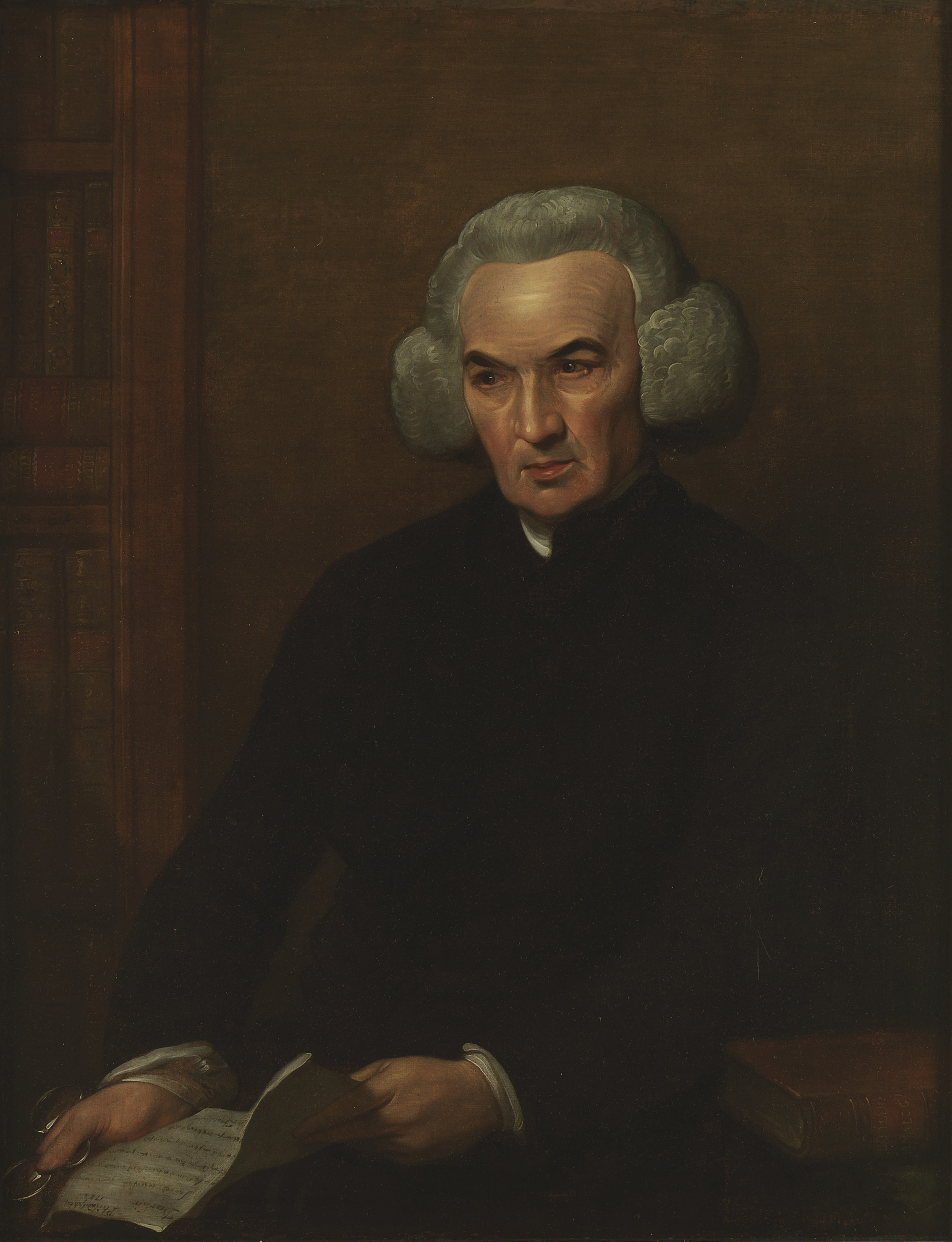 The sitter is shown is his study, reading a letter dated 1784 from Benjamin Franklin, a close friend of Price over many years.Price recorded sitting for the portrait in his short-hand journal. The journal is now in the collection of the Nationial Library (NLW MS 20721A). This portrait is the only official image of this highly important moral philosopher. There exist three versions: this present oil painting, a contemporary version now at the Royal Society and a 19th century copy in the Collection of the National Museum of Wales. The frame was specially commissioned using funds provided by the Friends of the Library. It is a Maretti, gilded frame in a style contemporary with the painting.